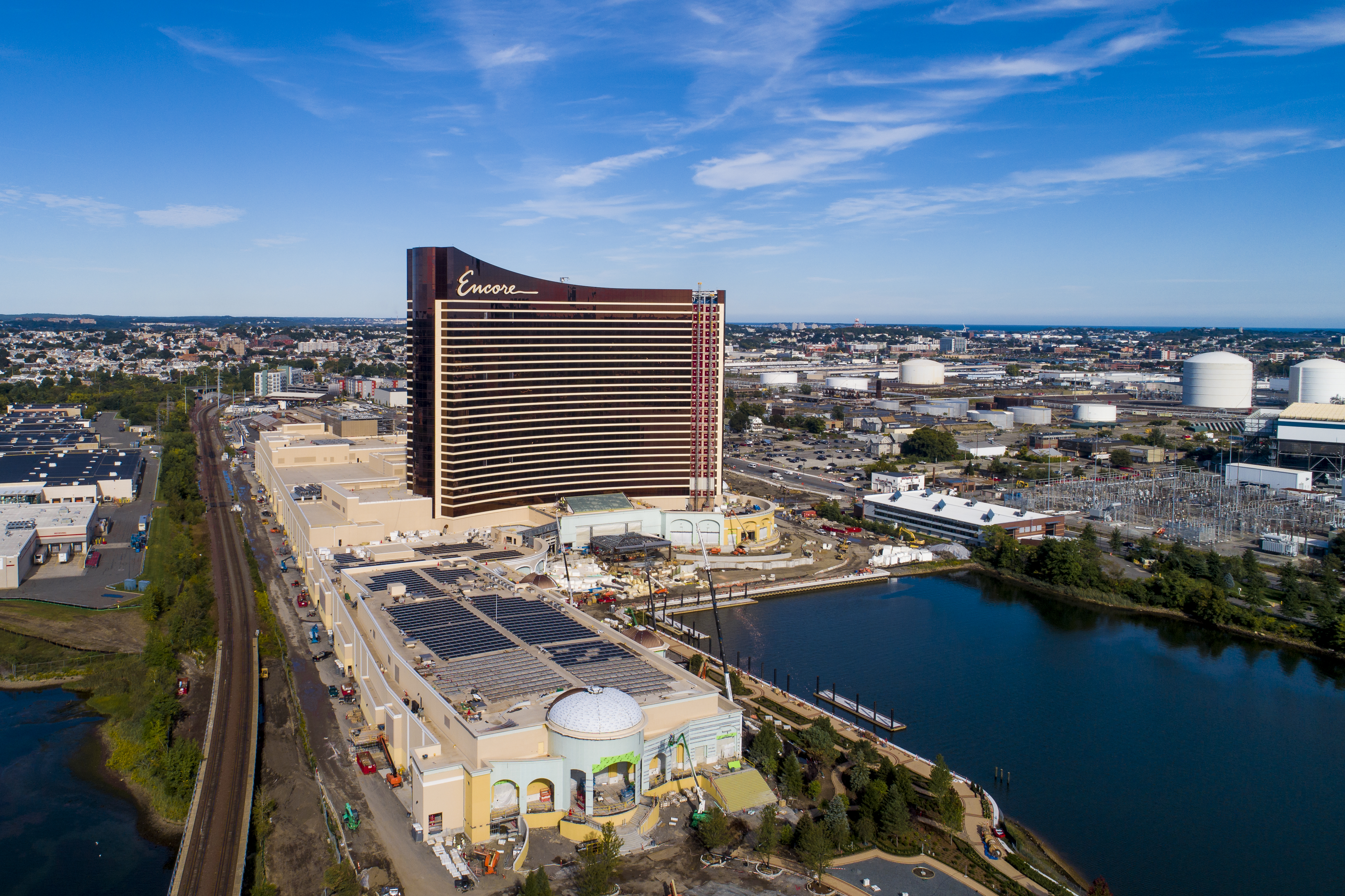 Wynn Encore casino nearing construction completion, September, 2018